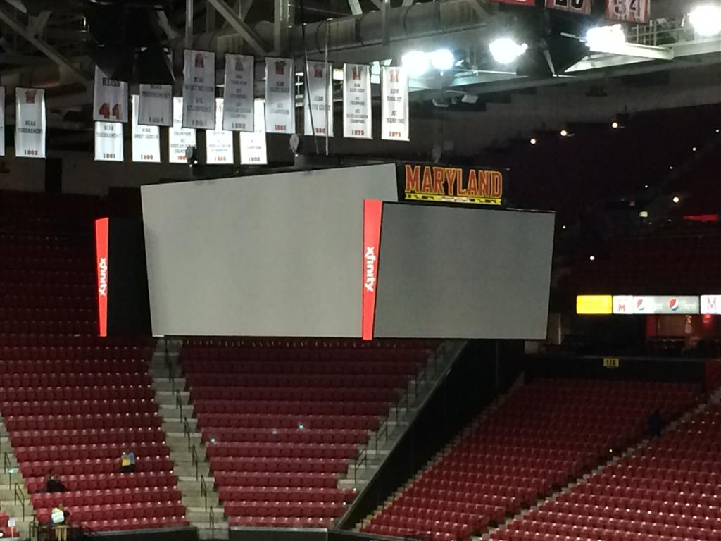 Xfinity Center scoreboard